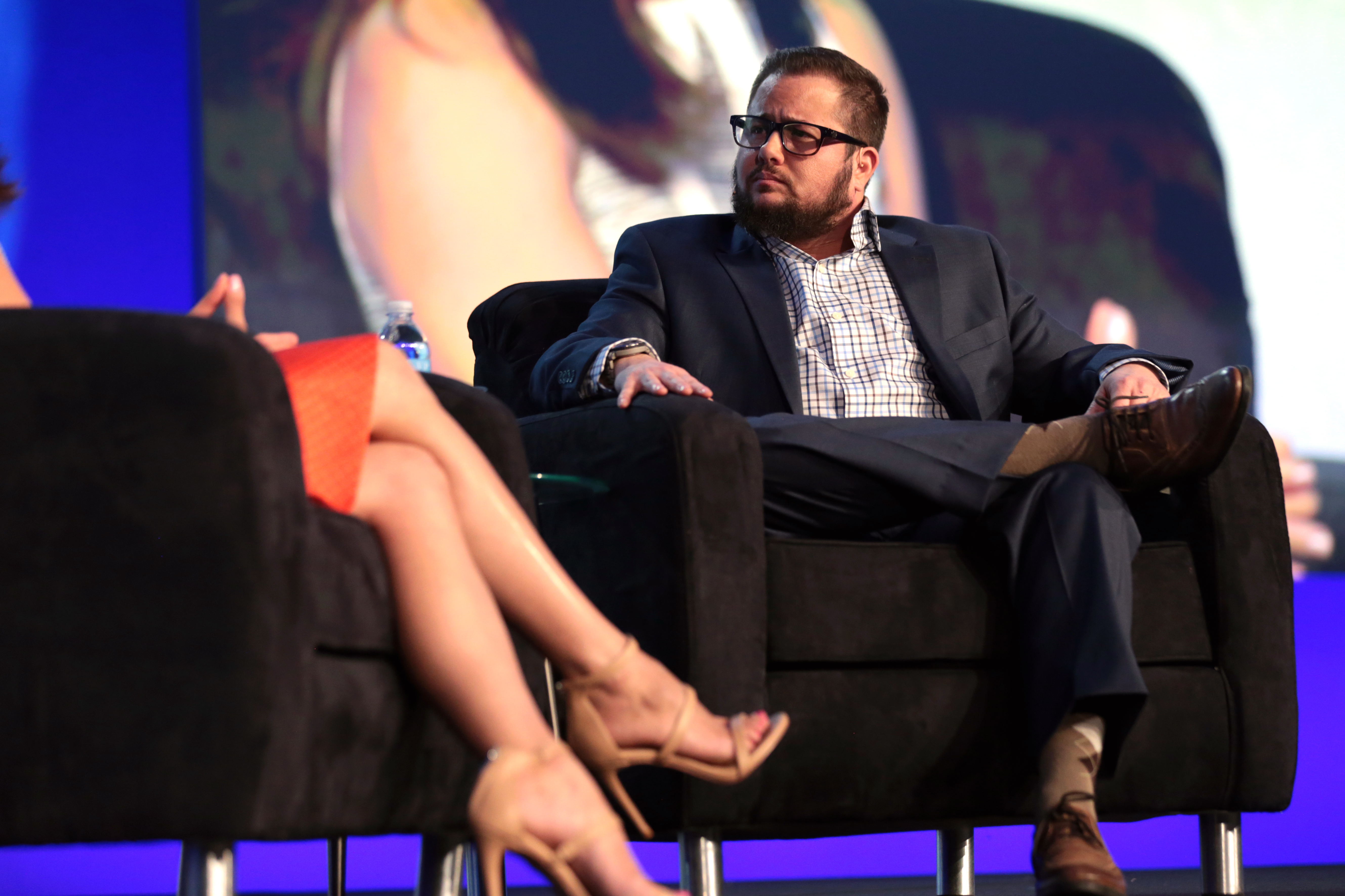 Chaz Bono speaking with attendees at the 2017 WorkHuman conference at the JW Marriott Phoenix Desert Ridge Resort & Spa in Phoenix, Arizona.